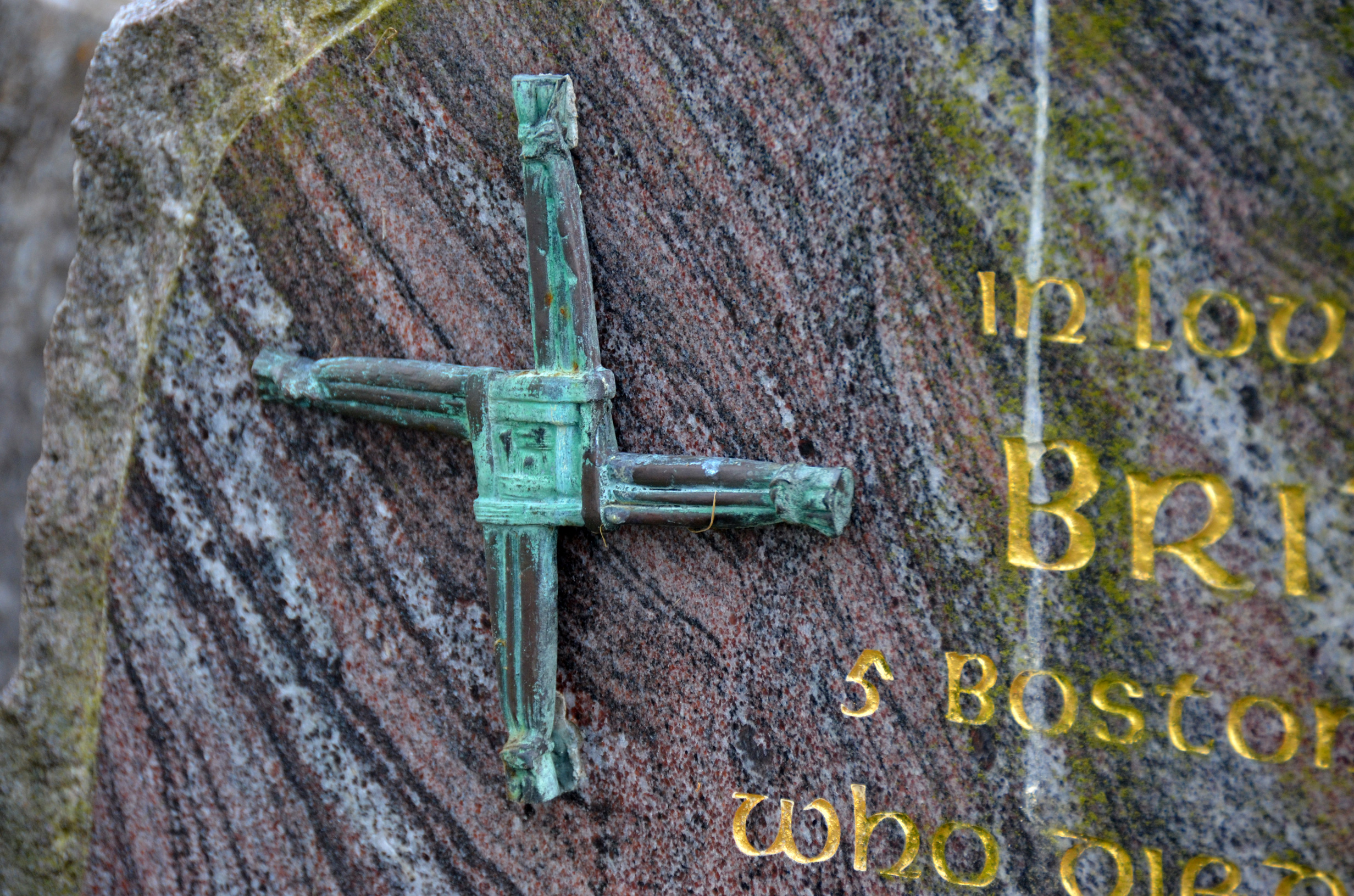 A bronze brigid's cross on a headstone in Tipperary, Ireland